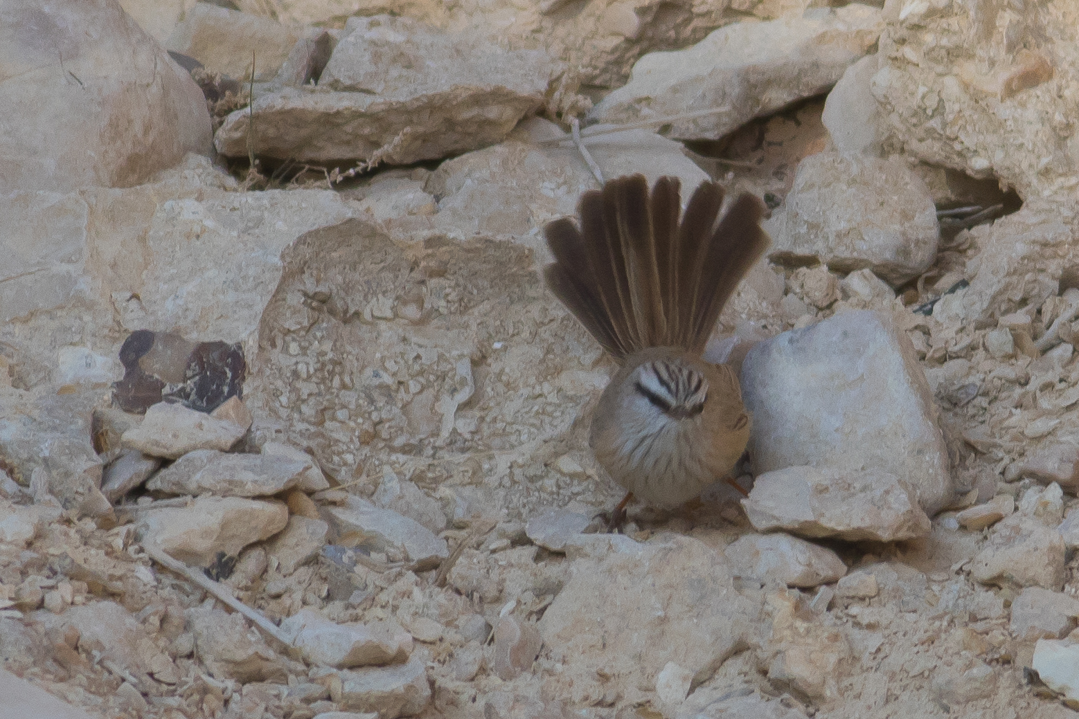 Streaked scrub warbler (Scotocerca inquieta) ,photo taken next to Sde Boker, Israel.